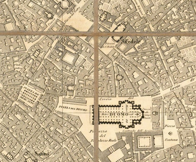 Particular of the area around piazza Duomo, Milan, in a 1860 map of Giovanni Brenna